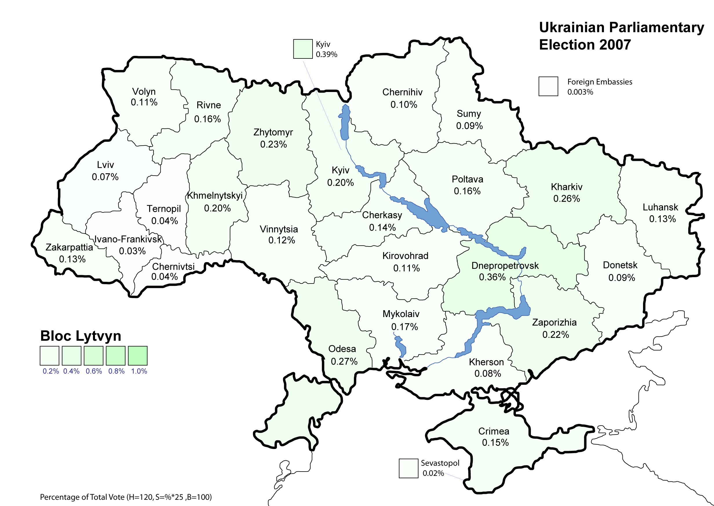 Bloc Lytvyn Party results (3.96%), one of the maps showing the top six parties support - percentage of total national vote Graphical representation of the 2007 Ukrainian Parliamentary Election. All data is derived from the published official results provided by the Ukrainian Authority (See links and data tables below)